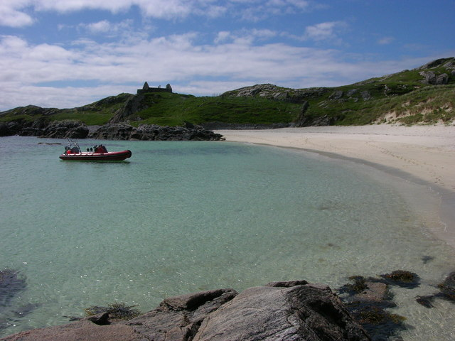 Traigh an teampuill, Little Bernera, Outer Hebrides, Scotland. Beautiful beach overlooked by a ruined chapel and small graveyard.